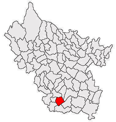 Limits of the commune of Florica in Buzău County, Romania